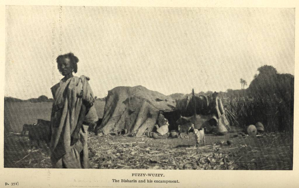 Bisharin tribesman stands in front of his camp.